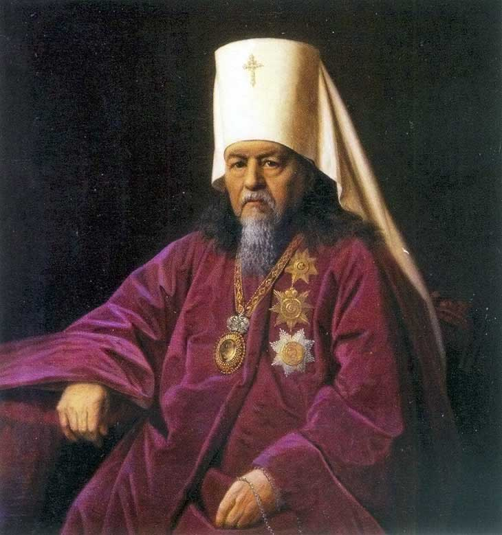 Metropolitan Isidor (1799—1892)